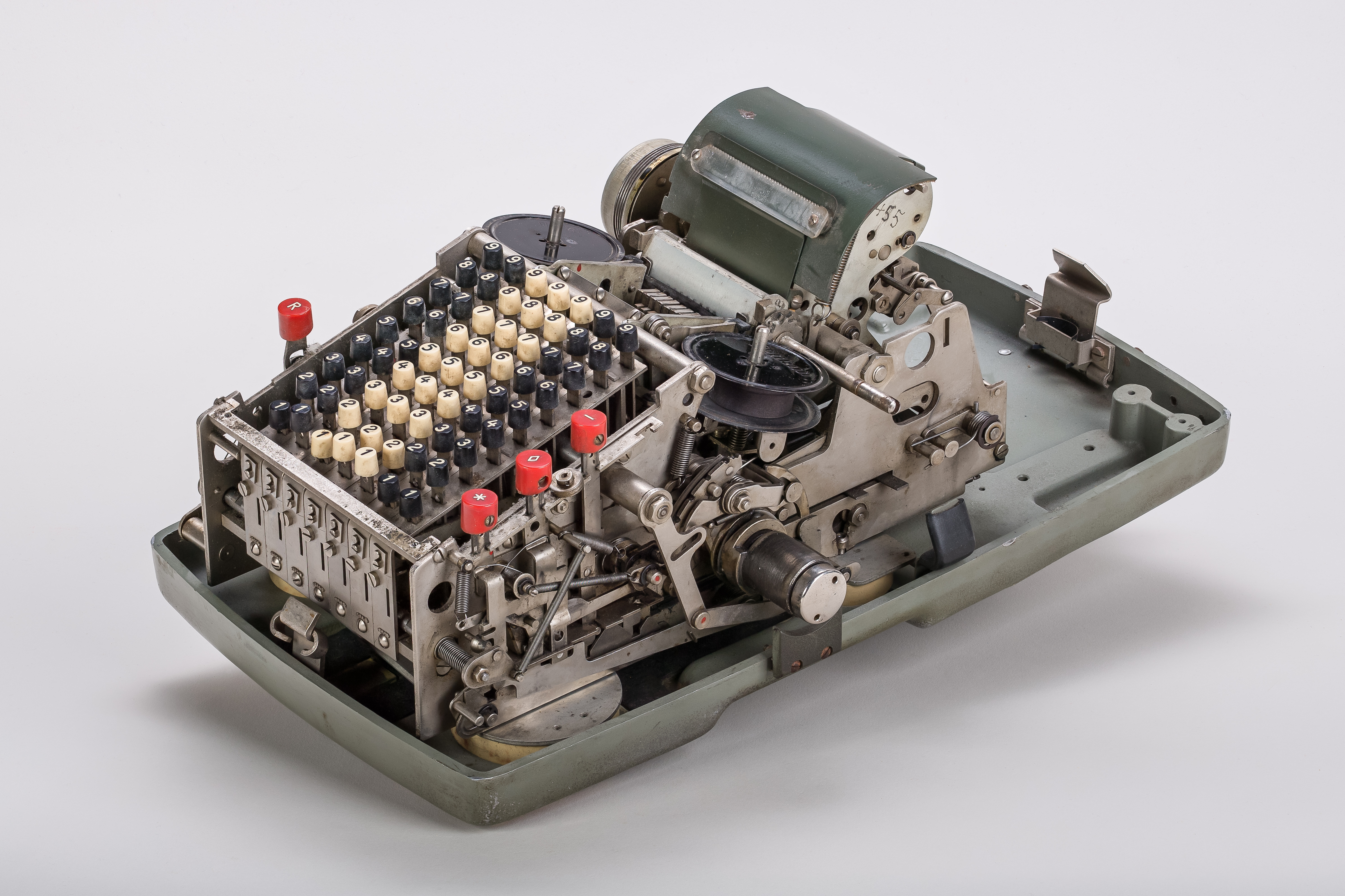 A Brunsviga 800 mechanical calculator with chassis removed. Produced by Brunsviga, Braunschweig in 1952.Focus stacking of 19 pictures.